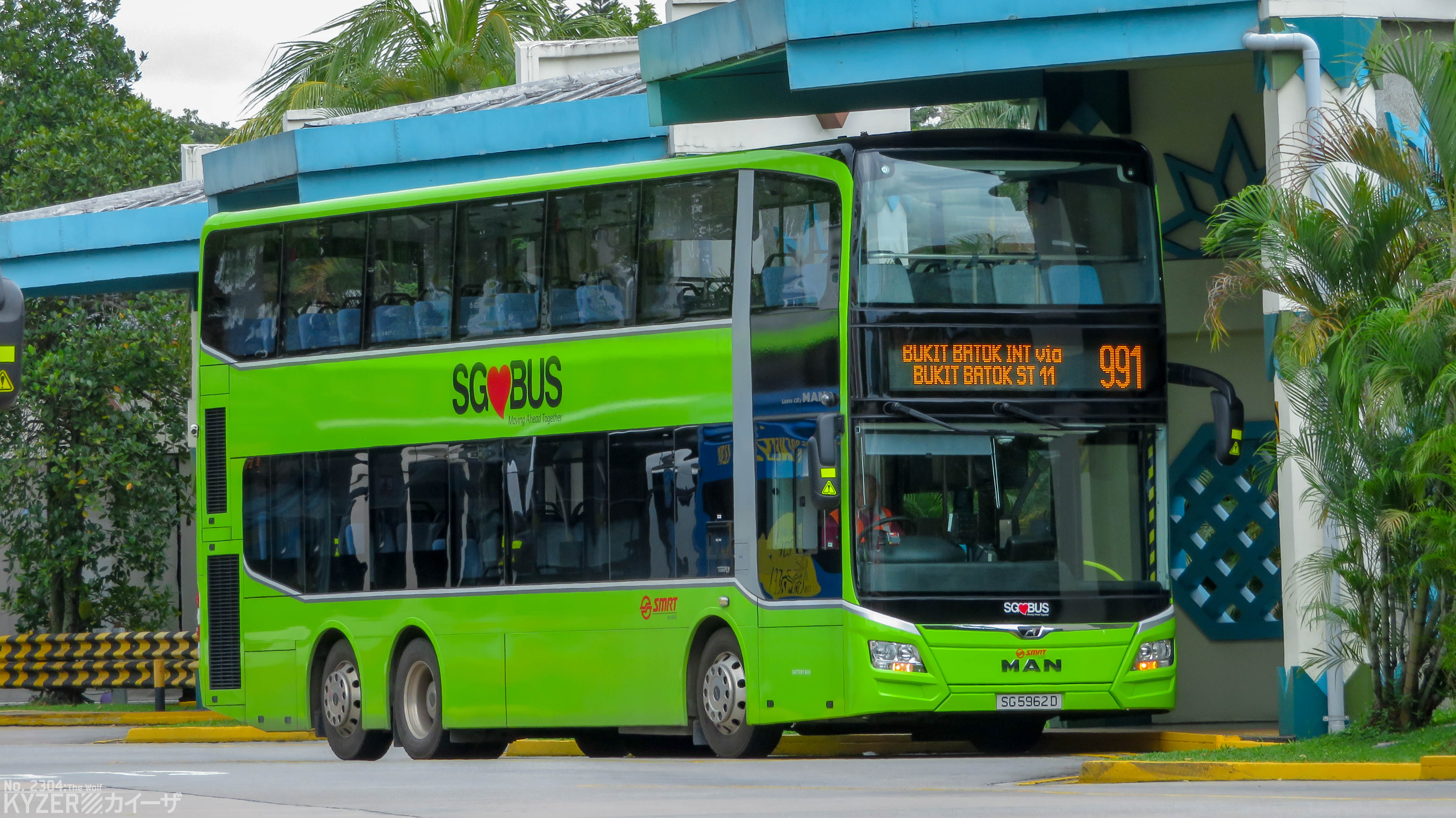 SG5962D - 991